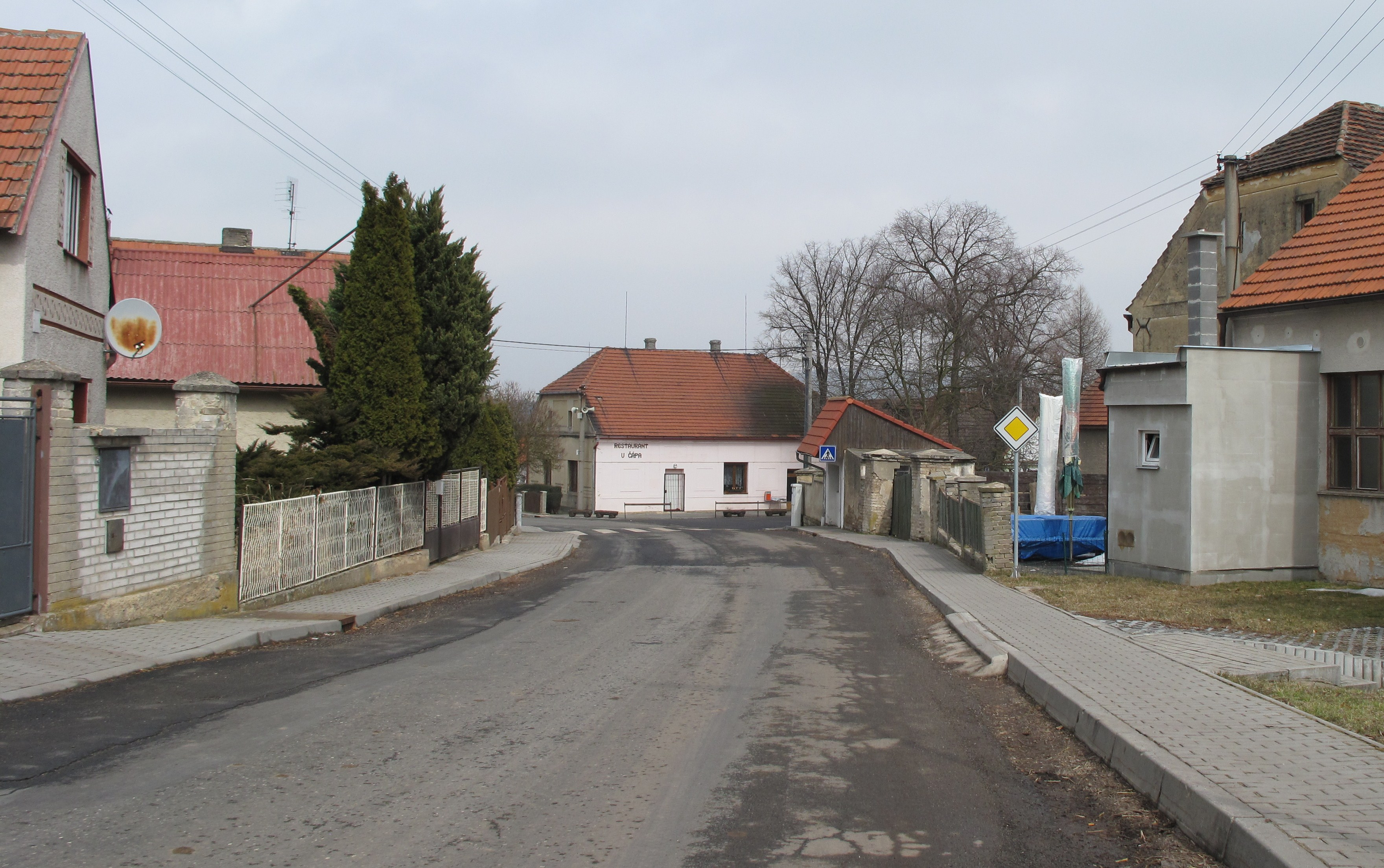 U Čápa Restaurant in Janov village, Rakovník District, Czech Republic.